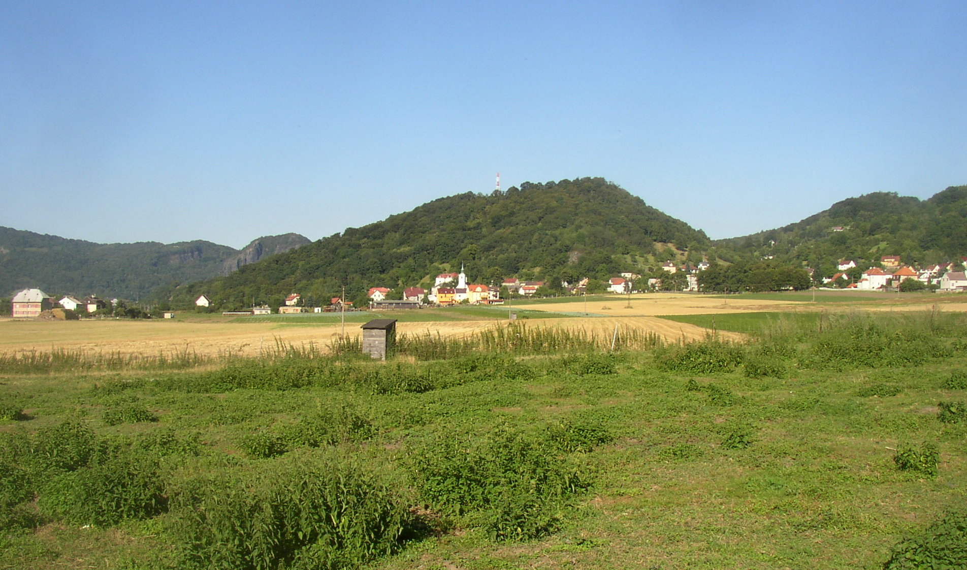 Svádov, a part of Ústí nad Labem city, Czech Republic, as seen from the west.